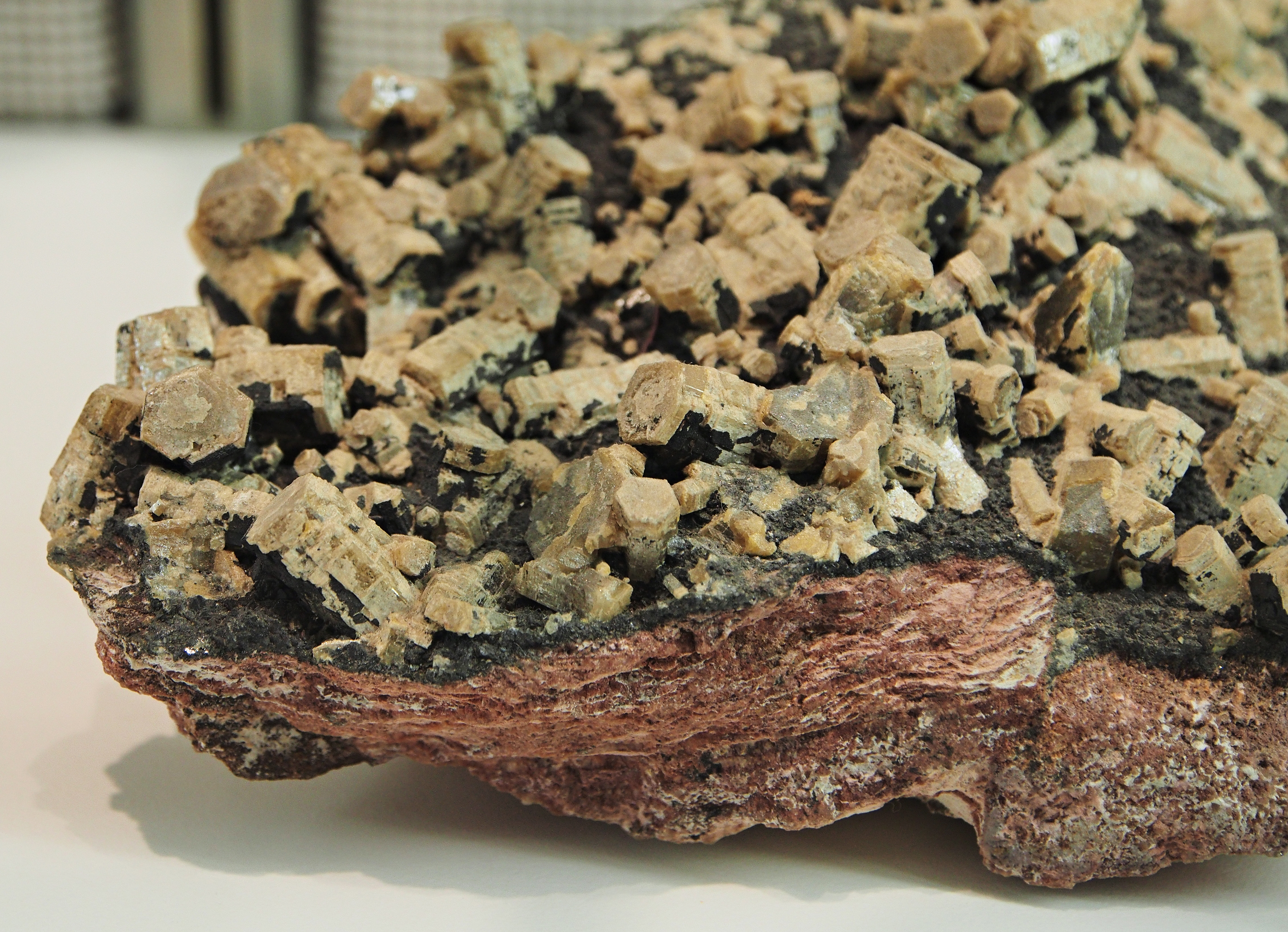 Photo of Vanadinite. It was taken at the Delaware Museum of Natural History and is listed as specimen #36.